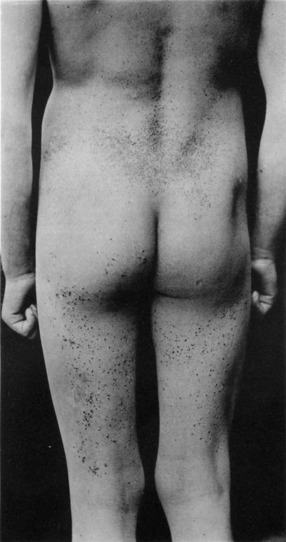 Image from Emil Honke at the age of 13. Honke was a patient from Johannes Fabry and suffered on Fabry's Disease.